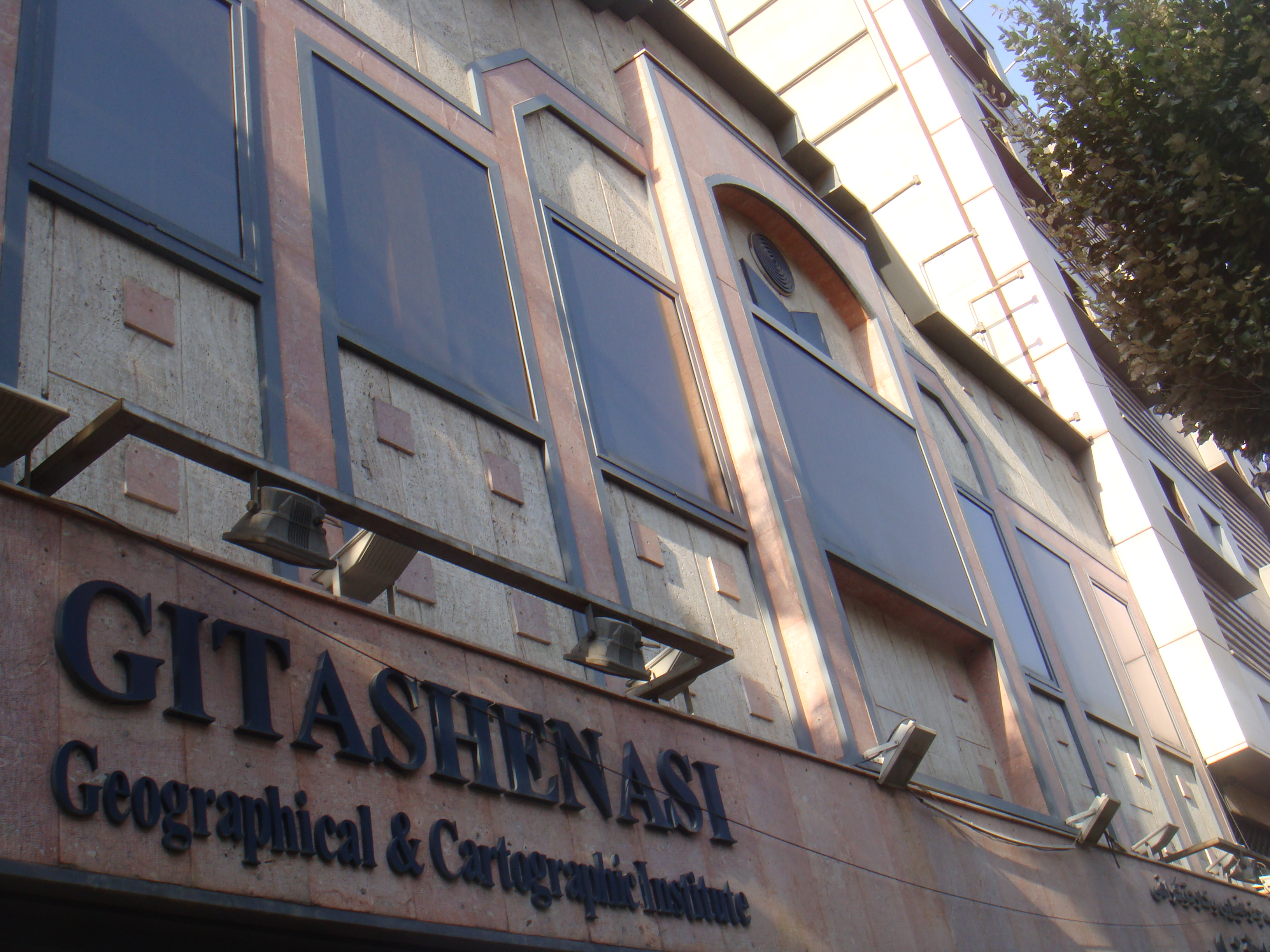 Gitashenasi Institute in Tehran.